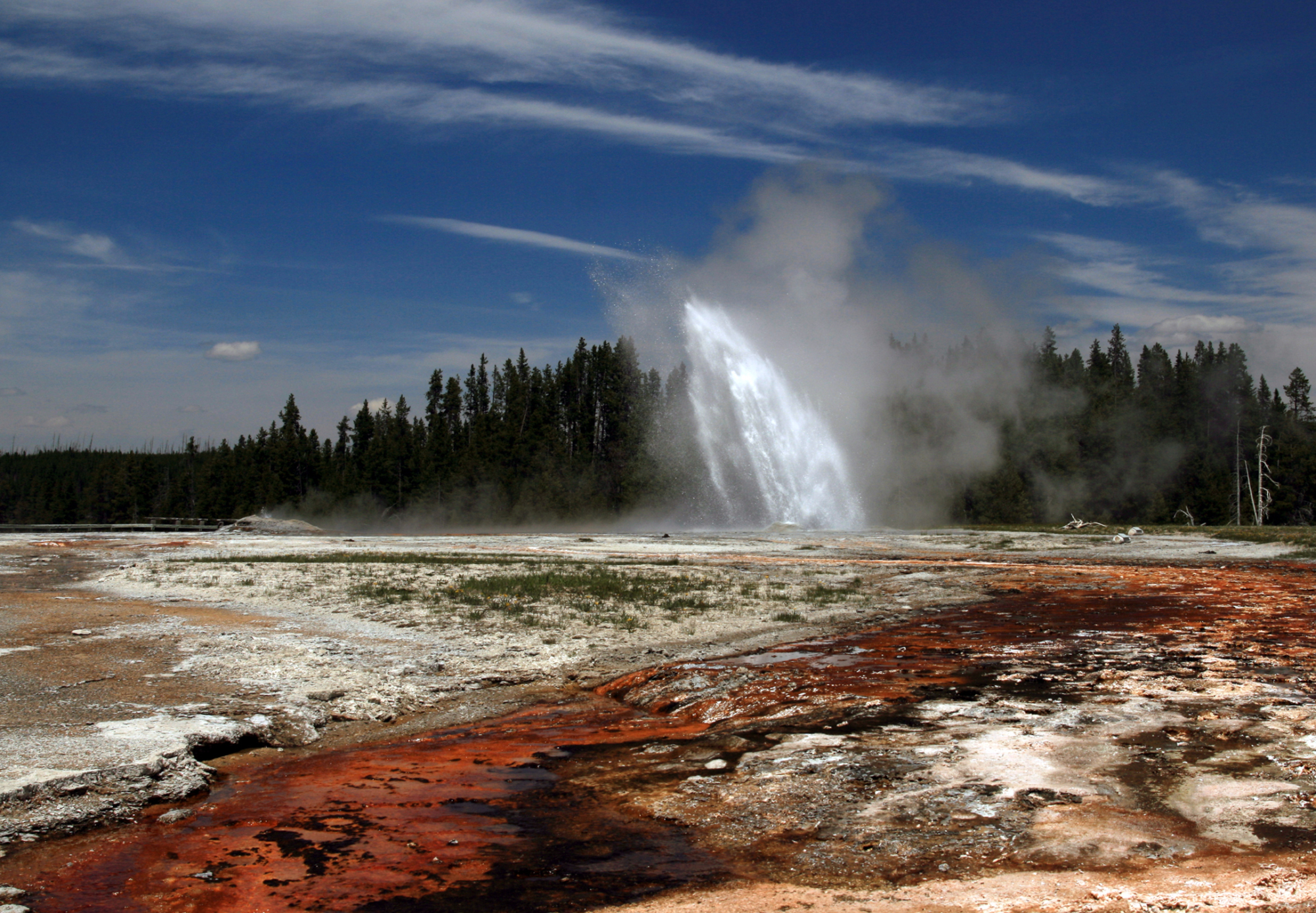 Daisy Geyser erupting in Yellowstone National Park